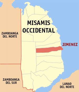 Map of the Misamis Occidental showing the location of Jimenez